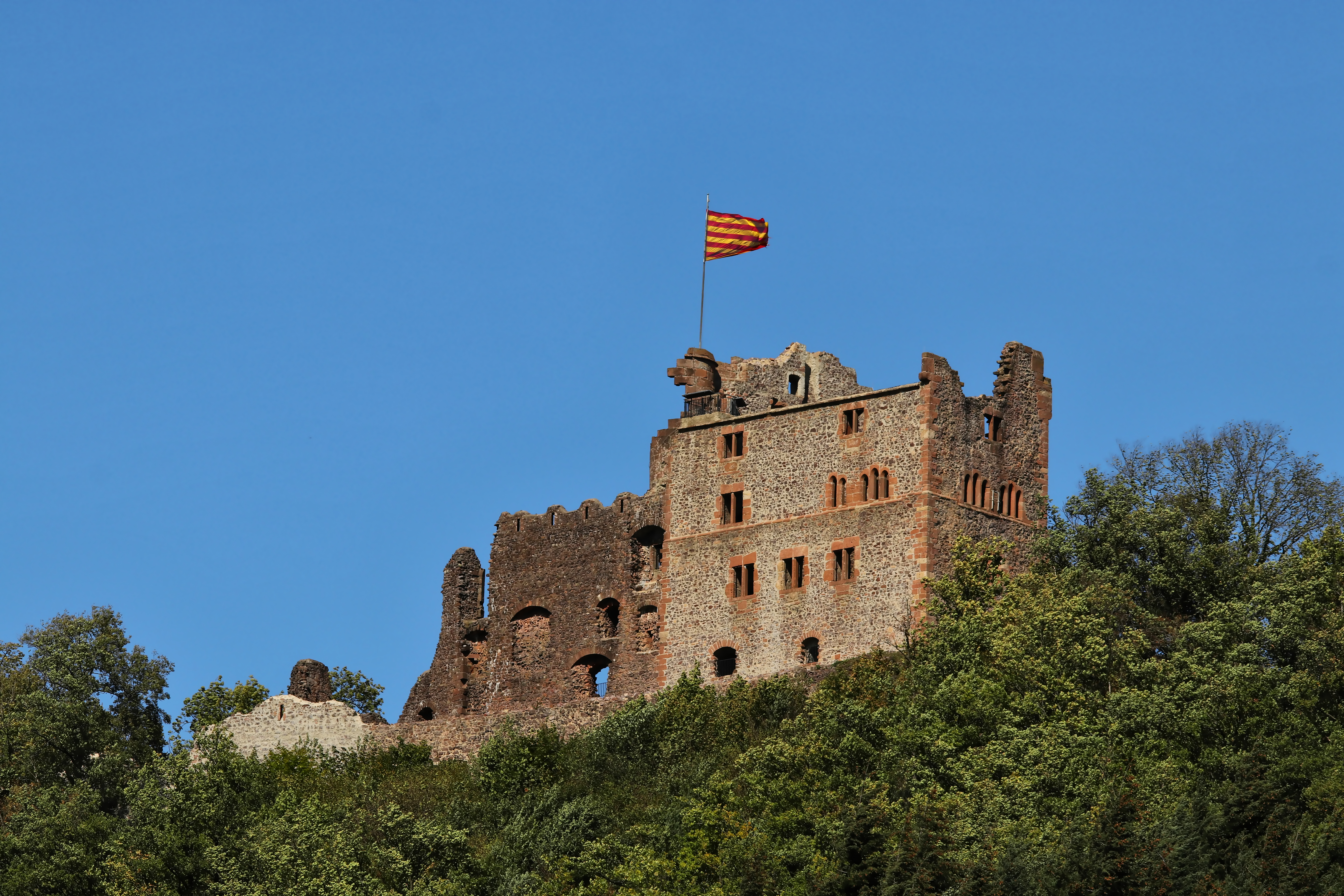 Panoramic view from the castle chapel to the castle ruin Hohengeroldseck in the district Schönberg of the municipality Seelbach.